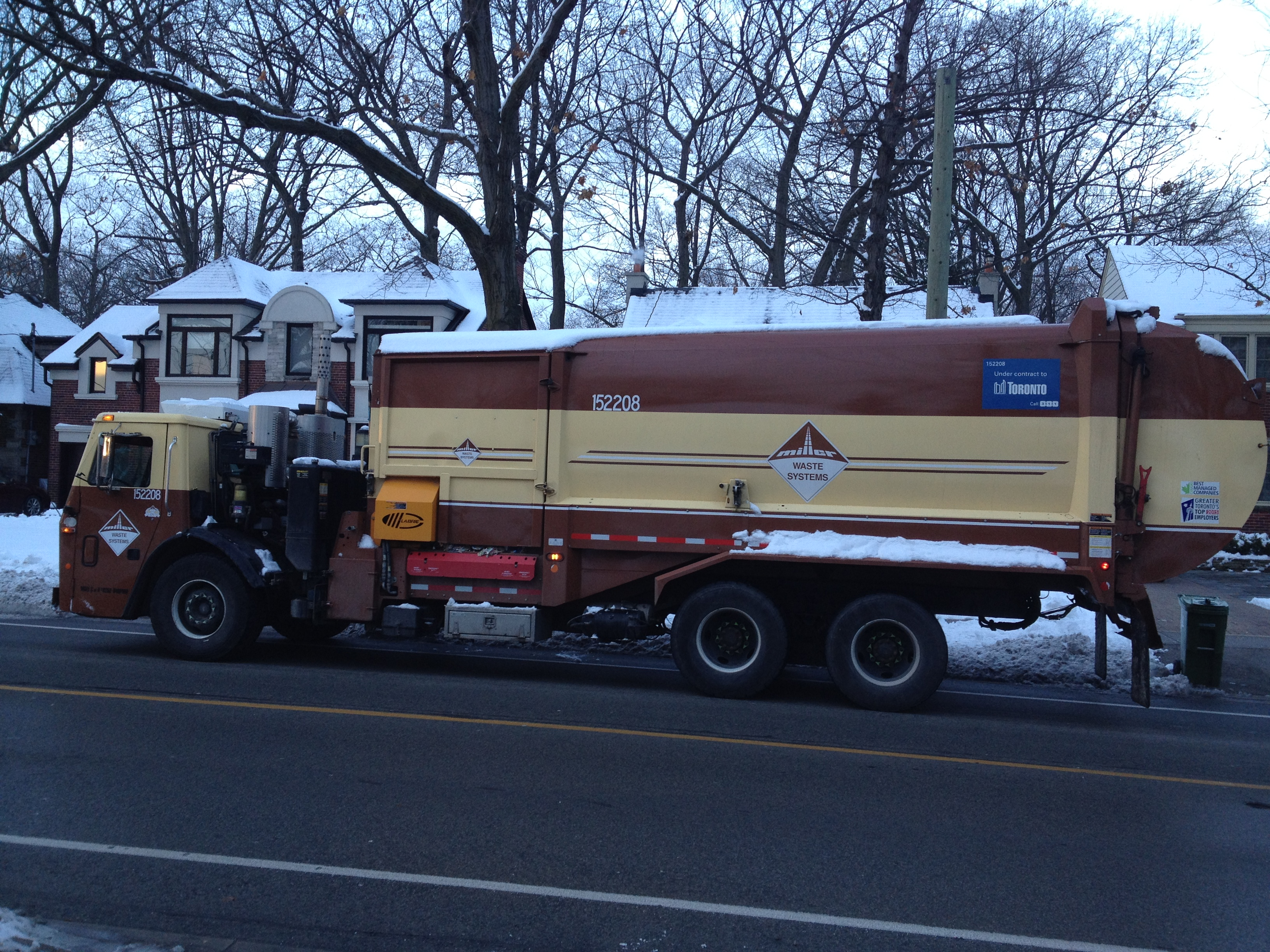 A Miller Waste Systems garbage collection truck (believed to be a Mack Truck) on Royal York Road. Vehicle has registration 152208 and is under contract to the City of Toronto.